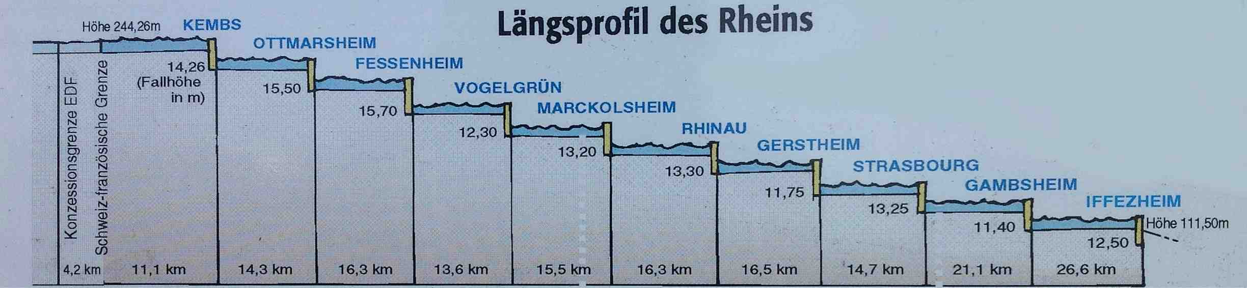 Map of height difference Rhine between Kembs and Iffezheim. Seen at public noticeboard at Iffezheim. September 2012